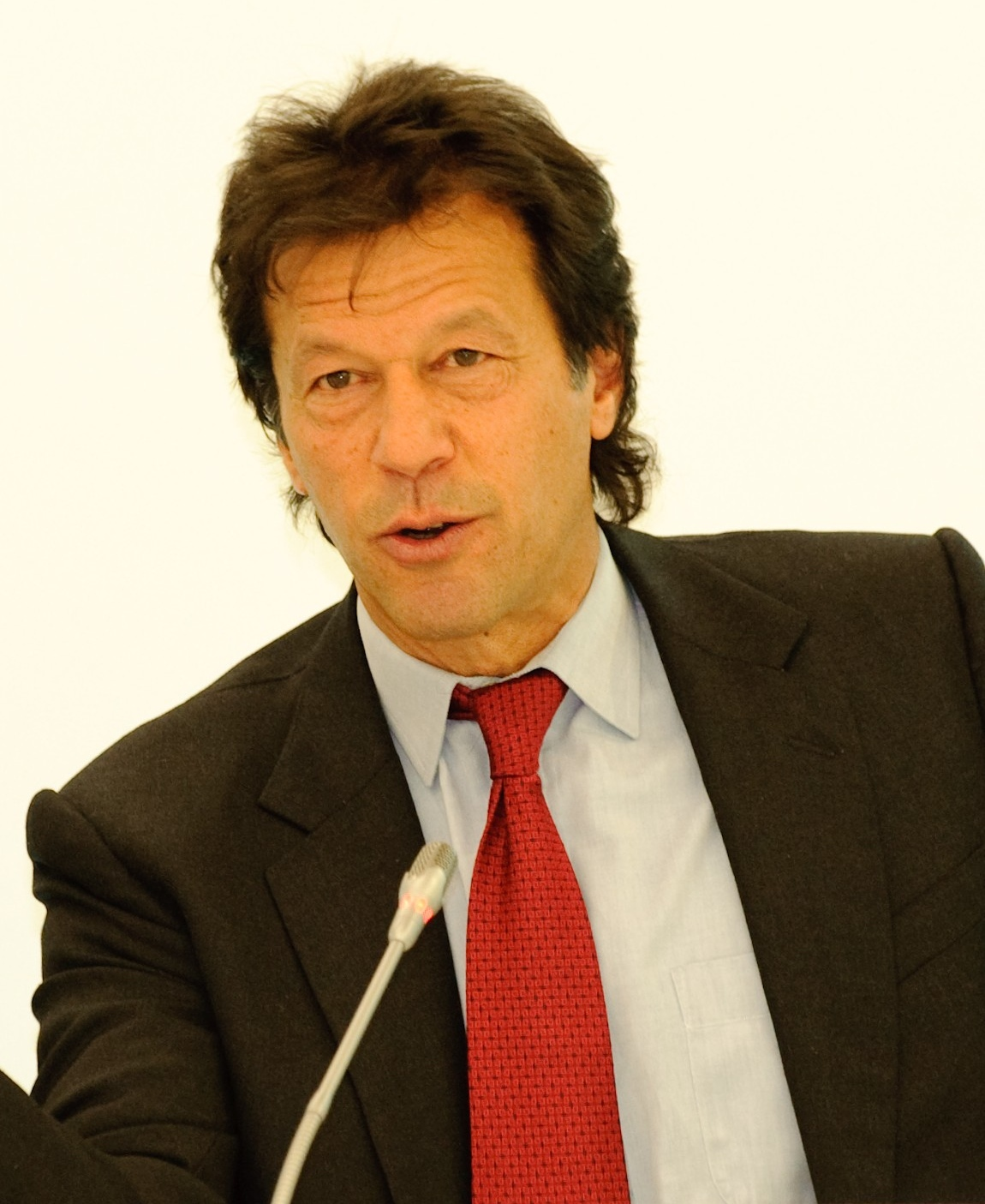 Imran Khan at the conference “Rule of Law: The Case of Pakistan” organized by Heinrich Böll Foundation on November 26, 2009 in Moabit, Berlin, Germany.